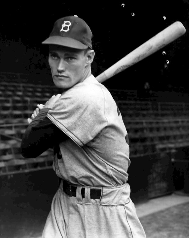 Photo of actor Chuck Connors when he was a professional baseball player for the Brooklyn Dodgers.